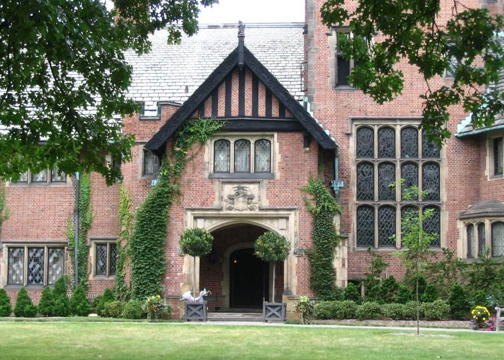 Front view of Stan Hywett Hall, Akron, Ohio